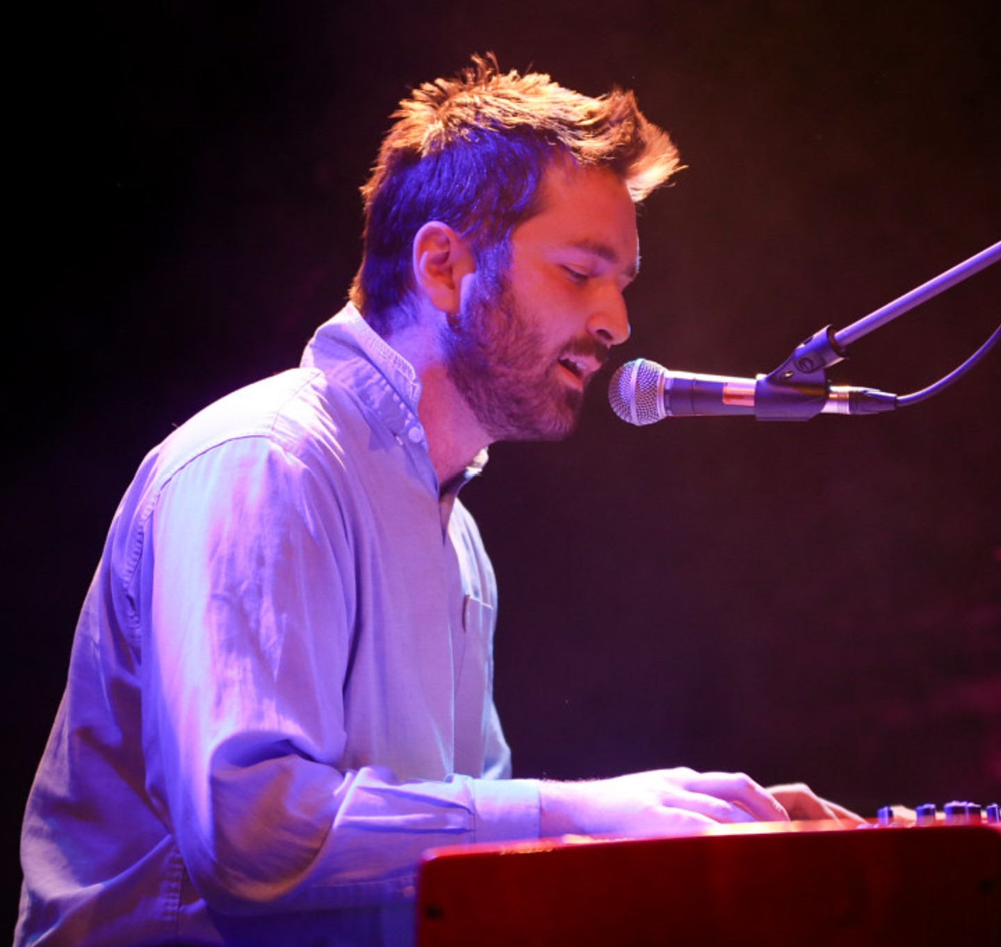 Tom Rosenthal (Musician)